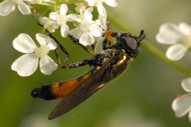 Platycheirus granditarsus from Commanster, Belgian High Ardennes .